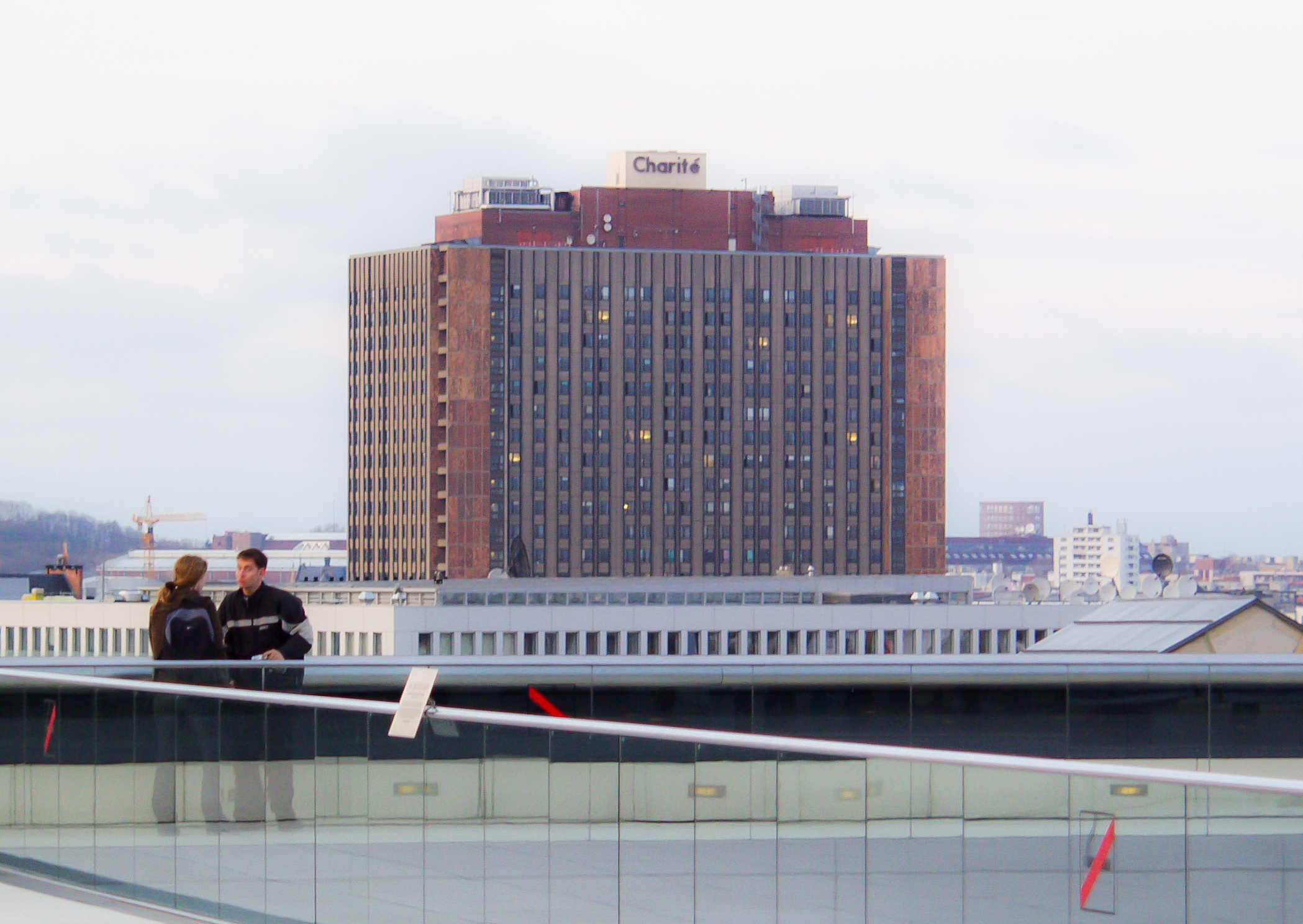 Berlin-Charité from roof of Reichstag